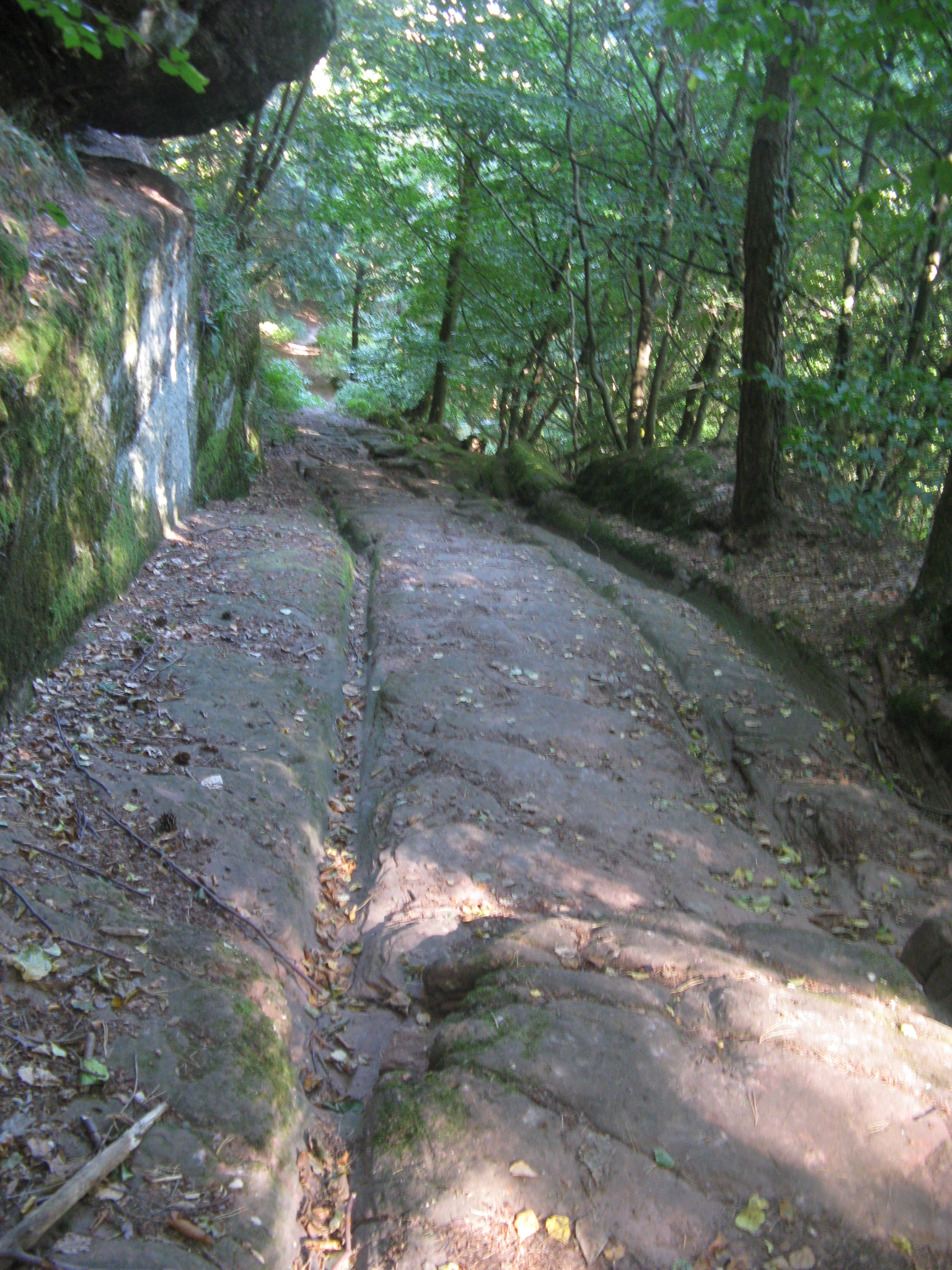 Mont St. Michel, Alsace/France: Ancient Roman road